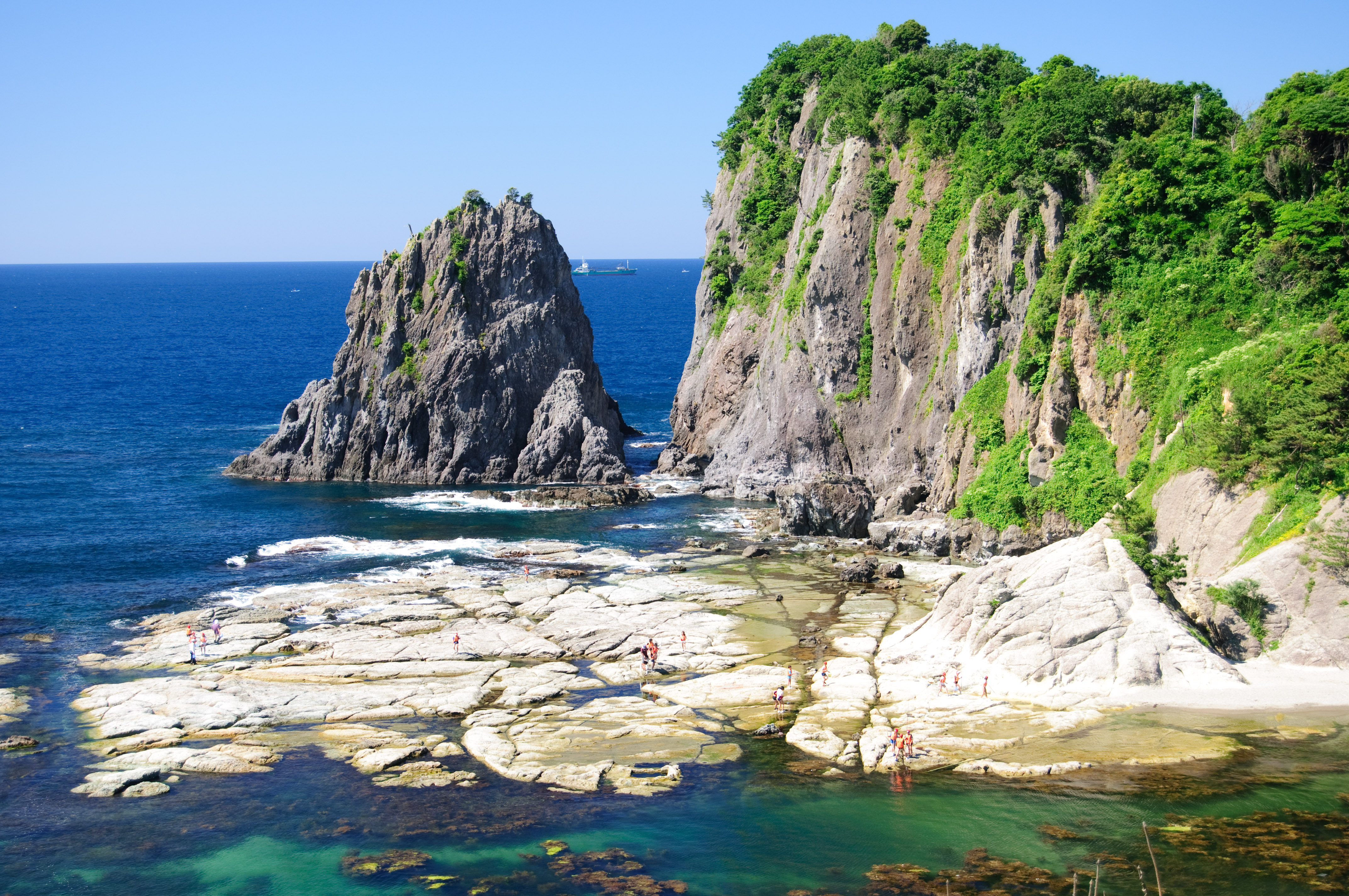 Imagoura From Kasumi Coast in Kasumi-ku, Kami-cho, Mikata-gun, Hyogo Prefecture,Japan.